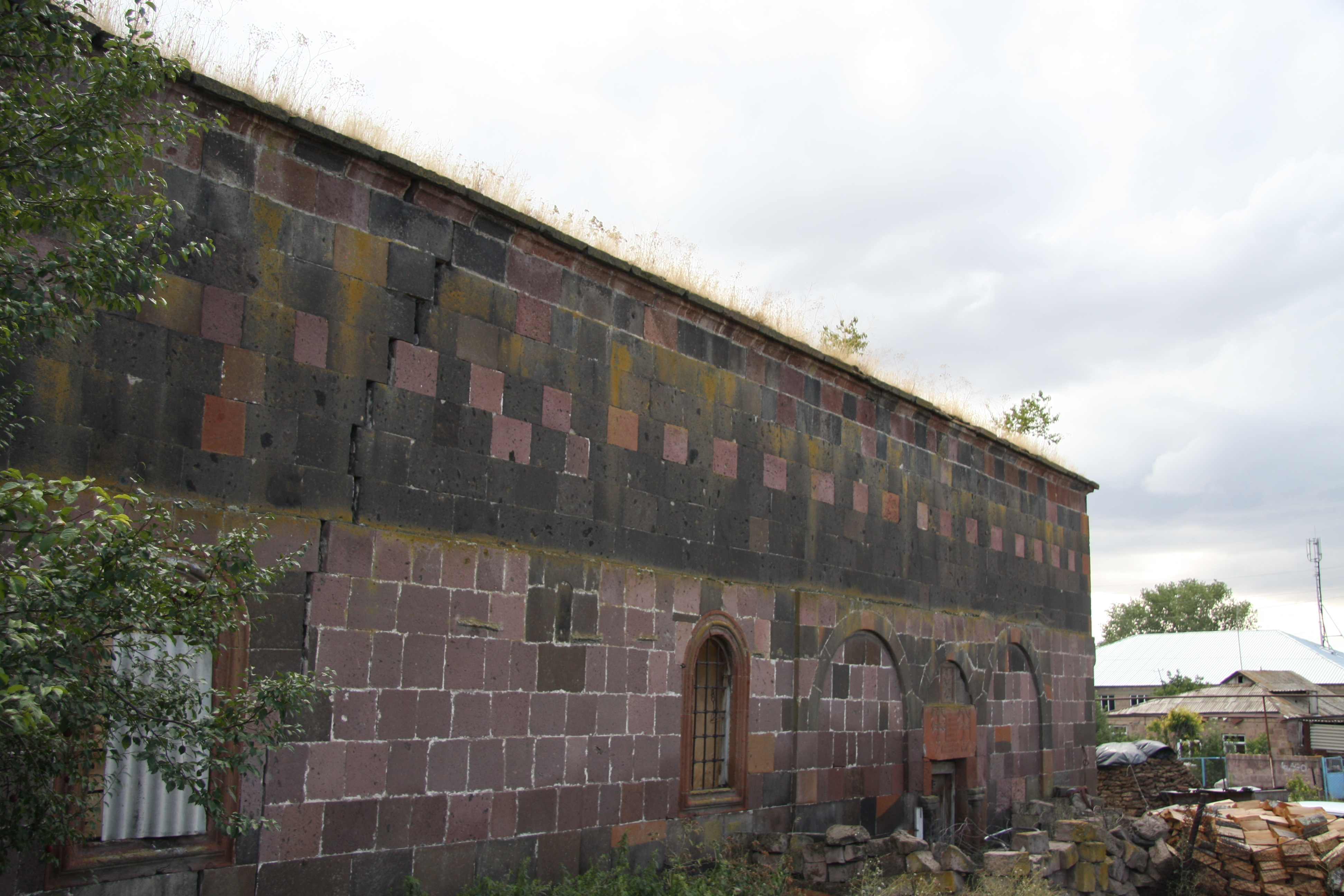 photo by Arthur Papoyan 67/6